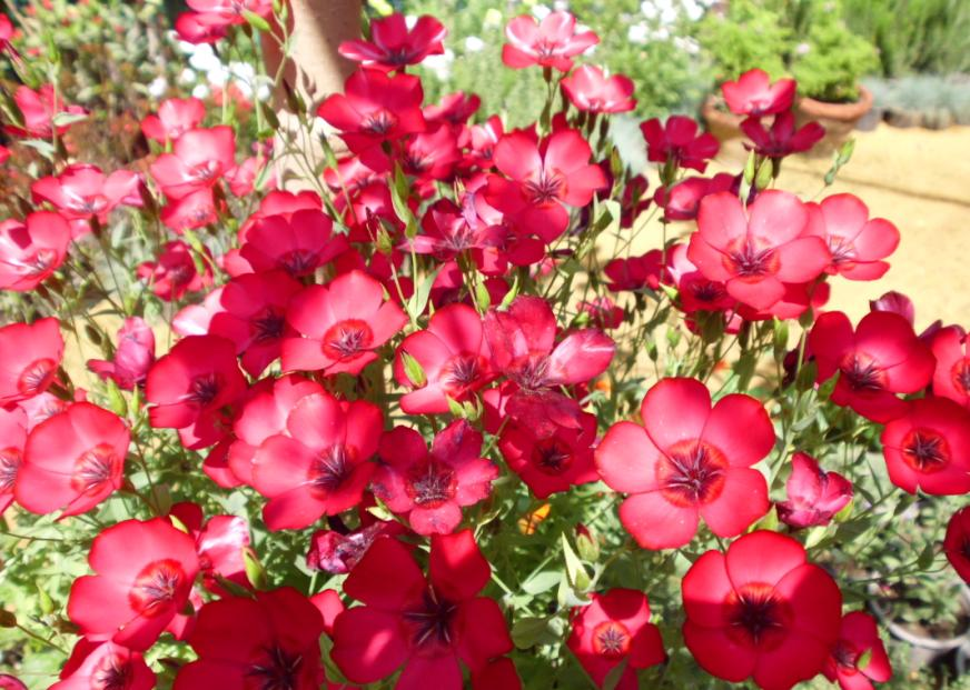 Linum grandiflorum at Orman garden (Cairo - Egypt)